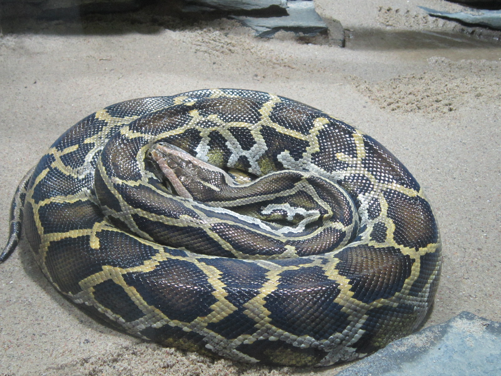 Burmese python in Berlin Zoo